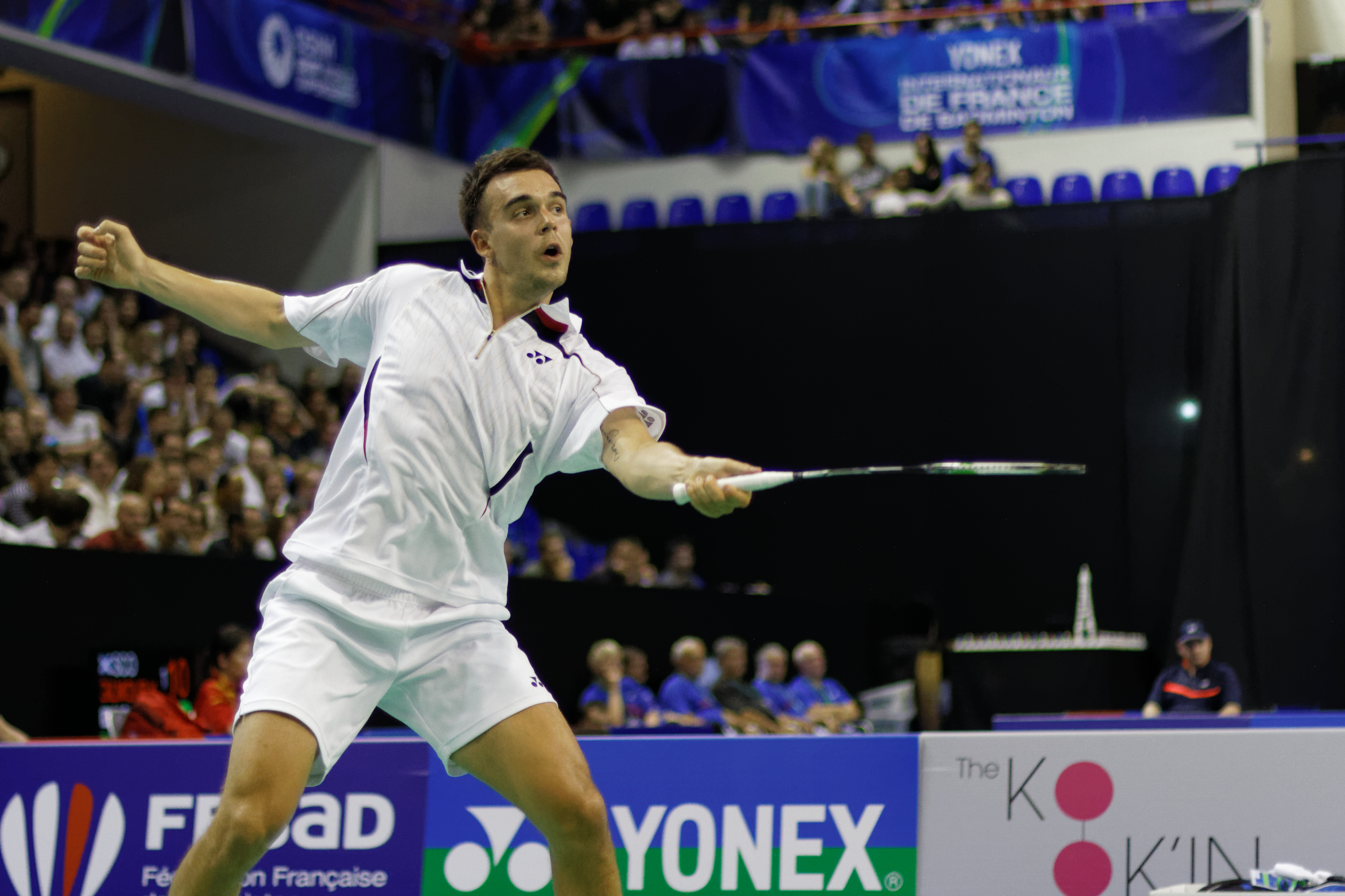 2013 French open. Men's doubles quarterfinal. Koo Kien Keat and Tan Boon Heong vs Chris Adcock and Andrew Ellis.